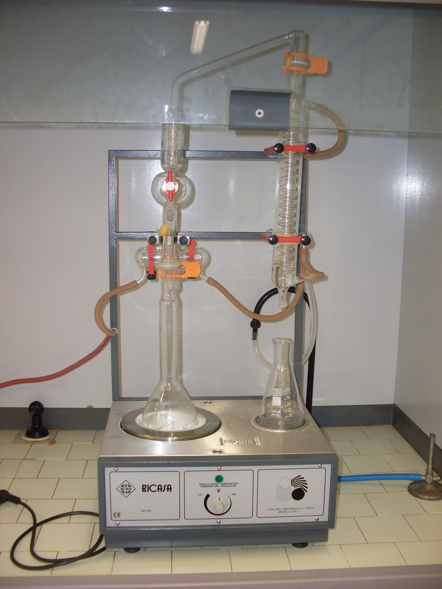 Kjeldahl extractor (Professional Institute of Agricultural and Environment "Sante Cettolini", Villacidro, Italy)